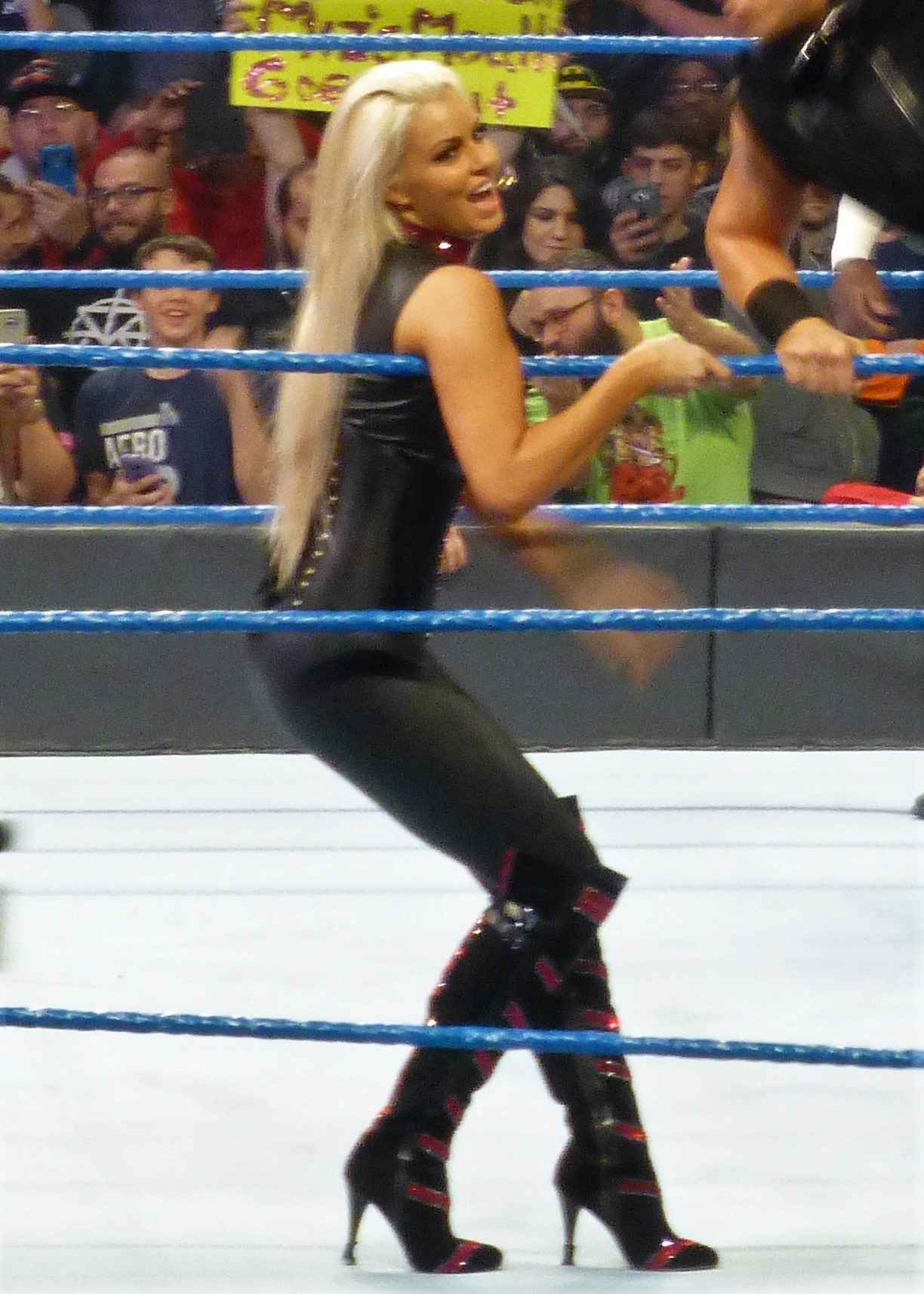 Maryse Ouellet at WWE's Event Shakedown 50 in December, 2016.